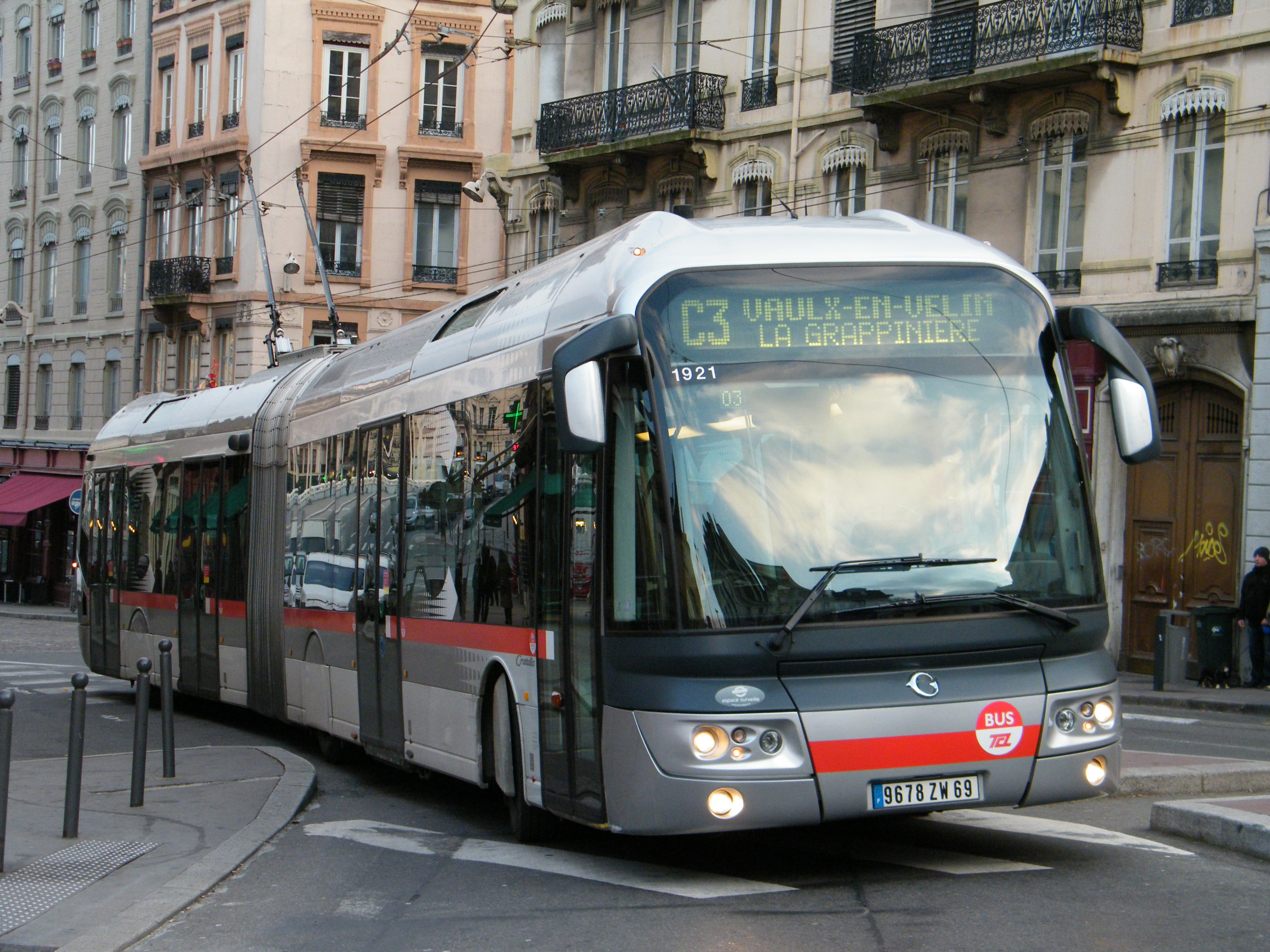 An articulated Irisbus Cristalis trolleybus in Lyon, France.